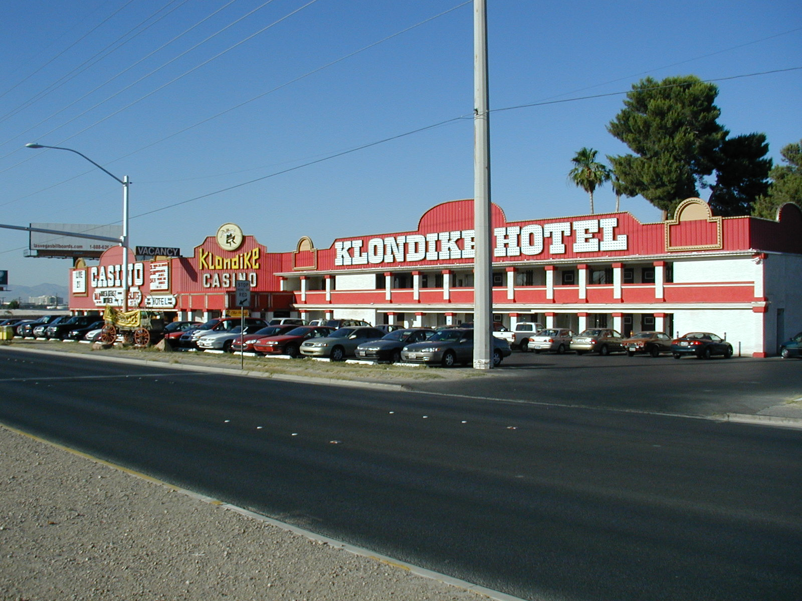 The Klondike Hotel Casino Las Vegas was demolished in March 2008